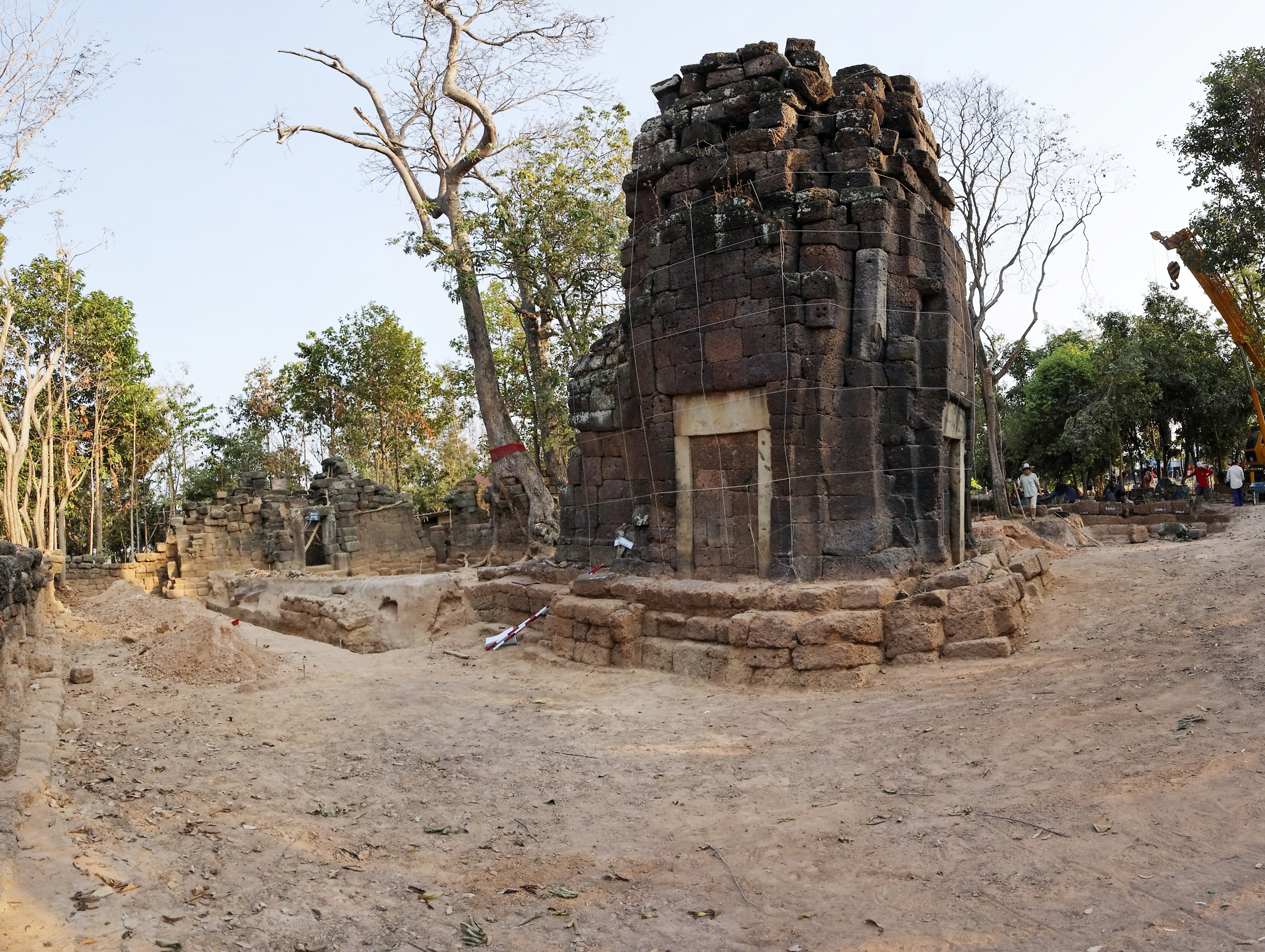 Prasat Hin Ban Samo, Thailand